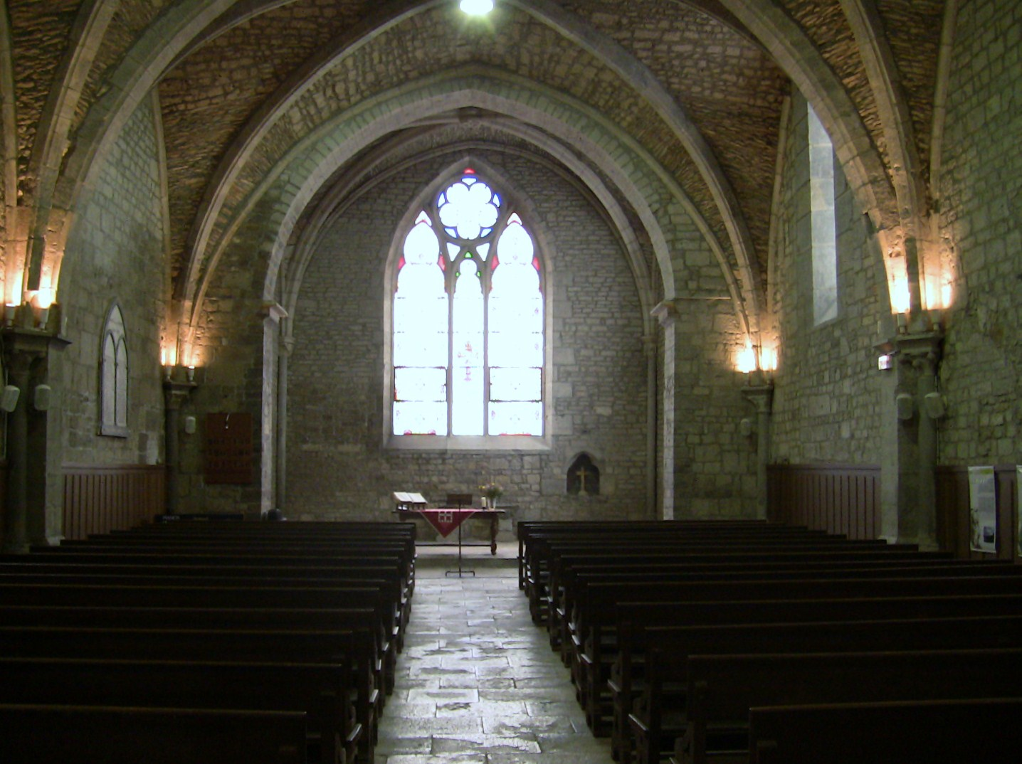 Interior of the temple of saint-ésprit, located Doubs, France)